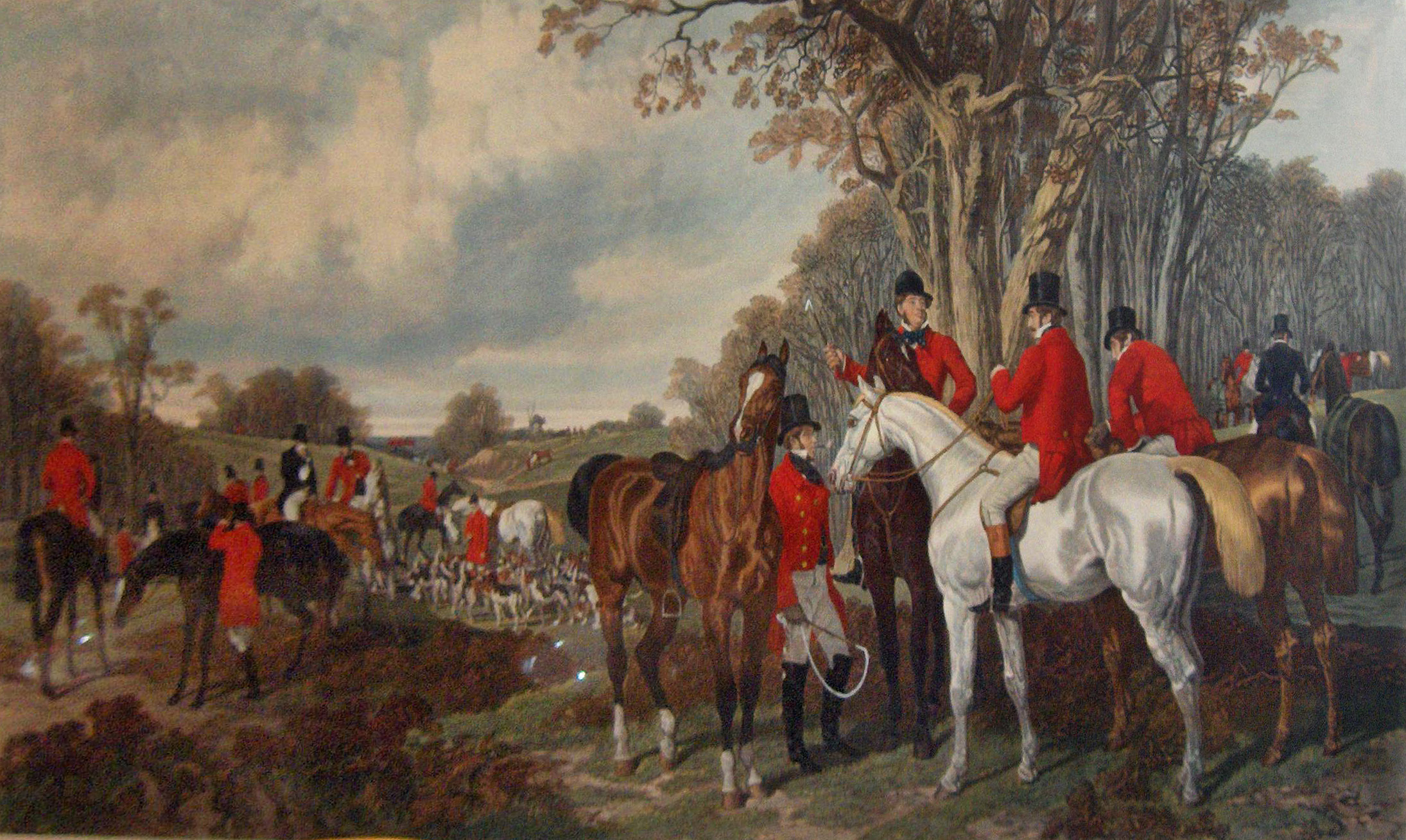 "The Meet" - engraving ublished by print dealer S.W. Fores (end 18th century)